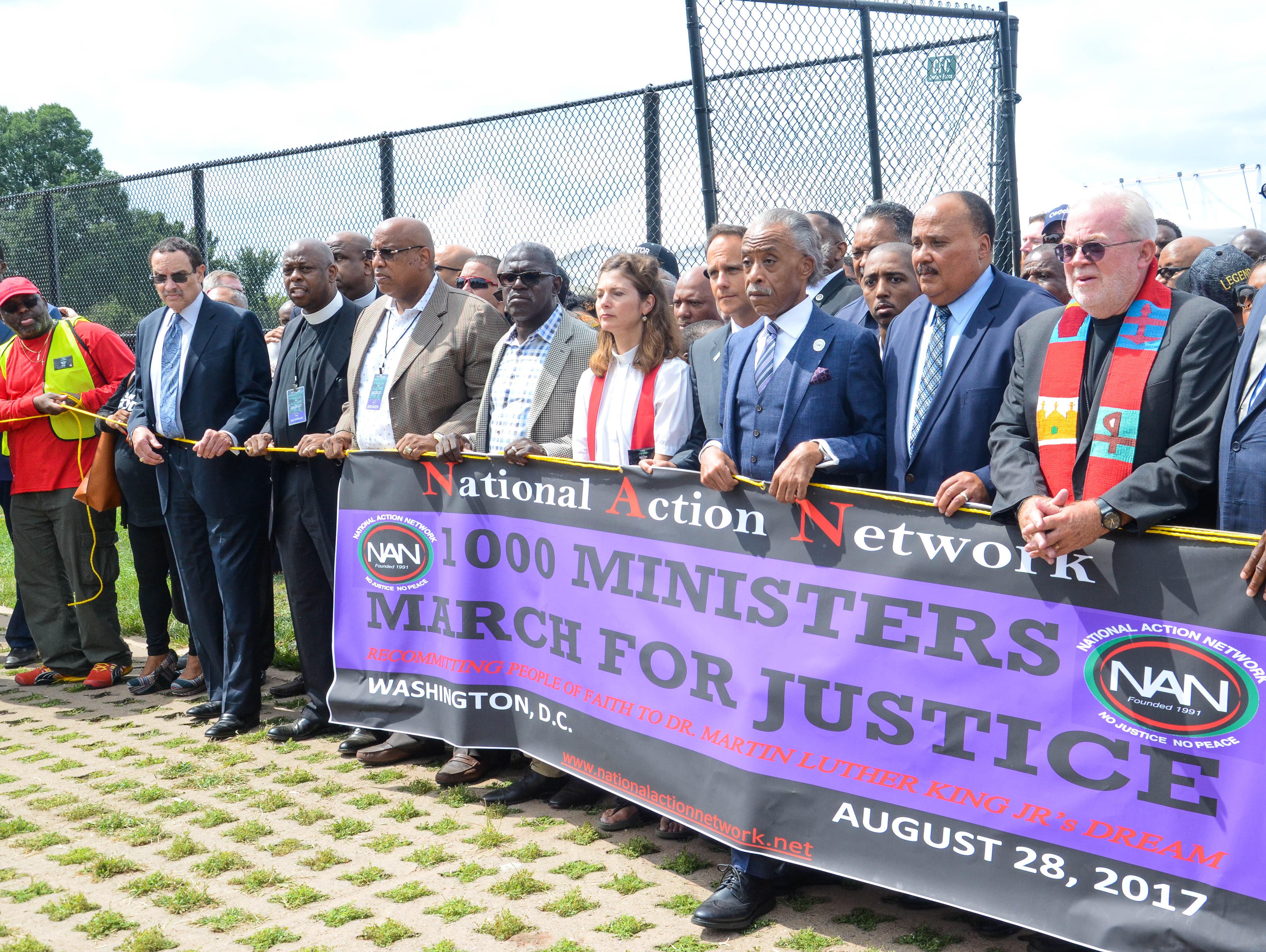 AFGE joins the National Action Network, community activists and faith leaders from around the country for the Ministers March for Justice.